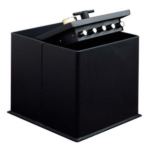 Copying from this site is permitted and legal.